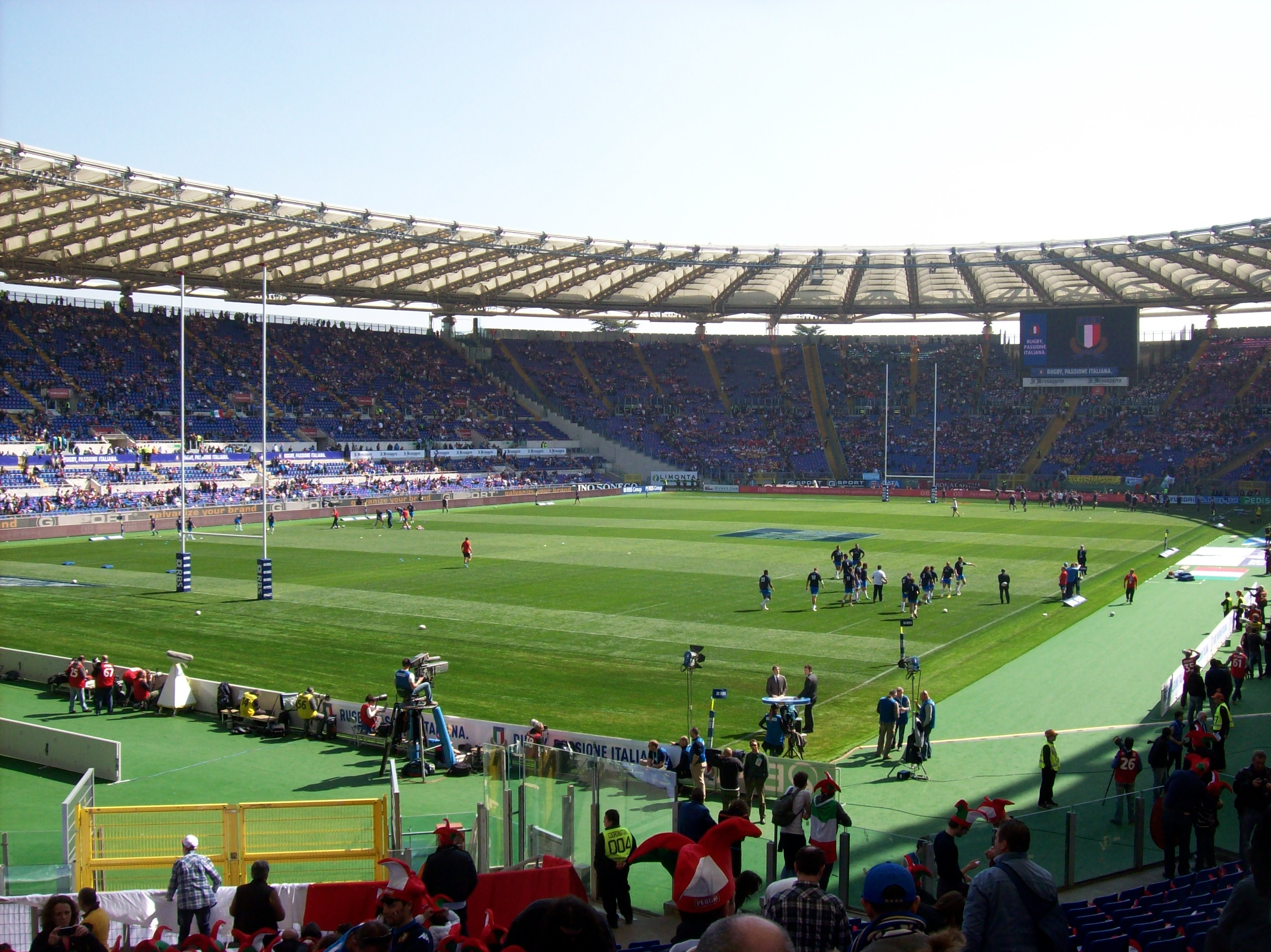 Italy warmup before the 2012 Six Nations against Scotland national rugby union team at the Olympic Stadium, Rome